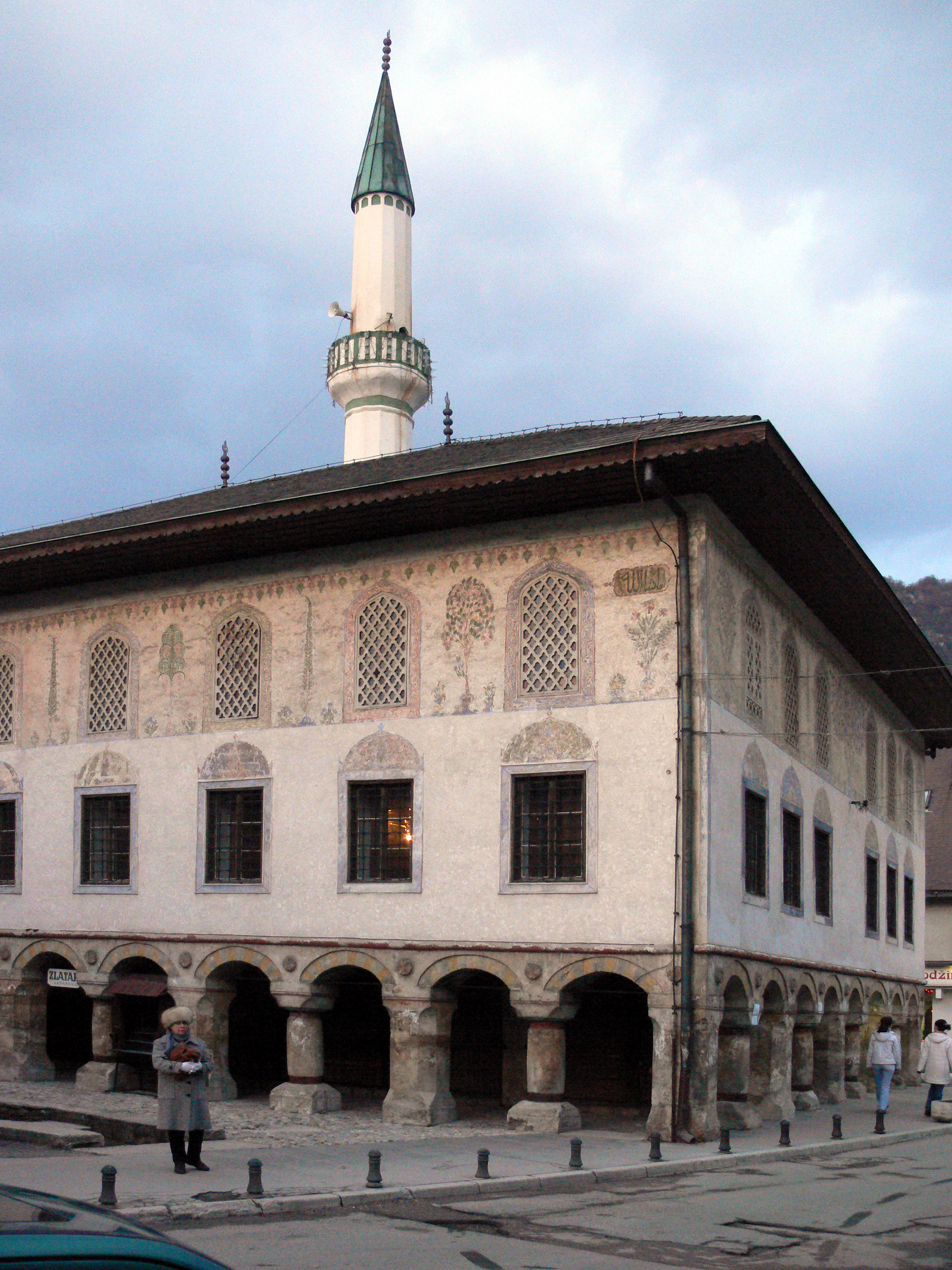 The old mosque in Travnik.